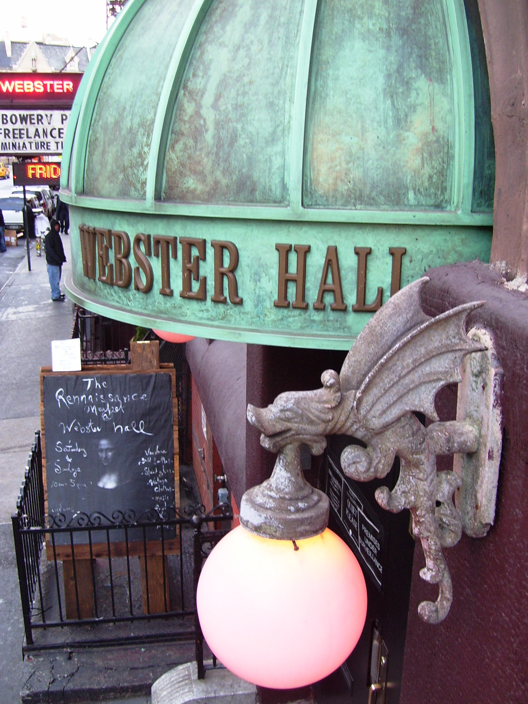 Domed canopy & sconce lighting fixture over a side exit from Webster Hall.